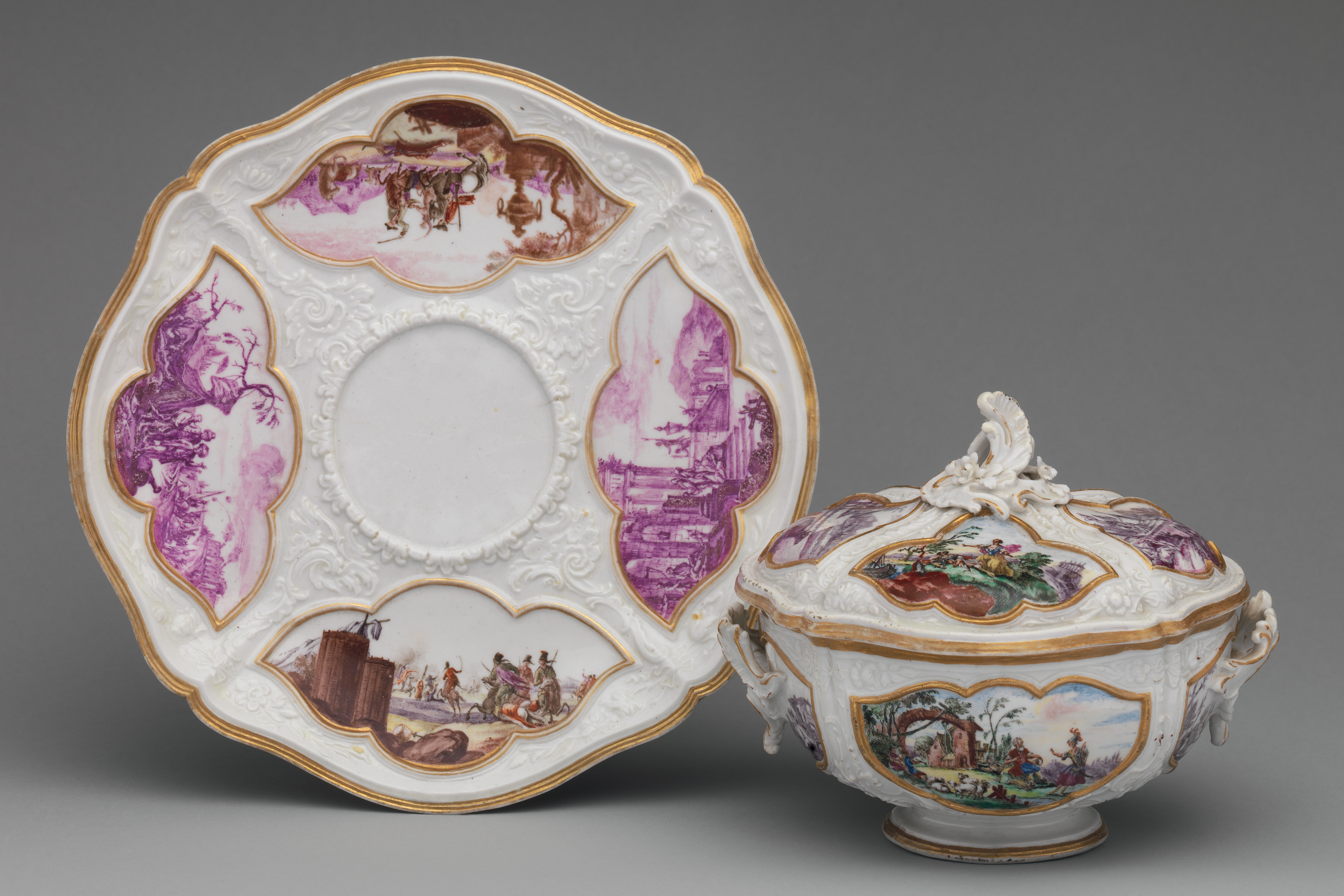 Italian, Nove; Bowl with cover and stand; Ceramics-Porcelain